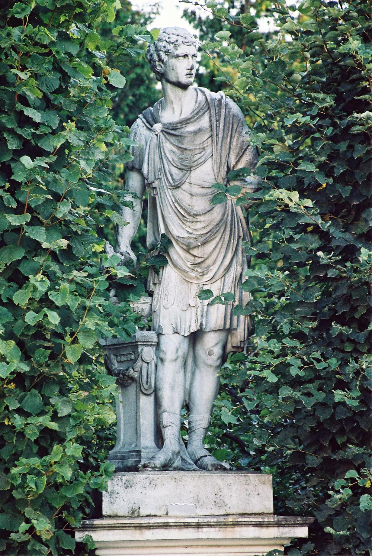 Vienna, Schönbrunn gardens, statue Mucius Scaevola